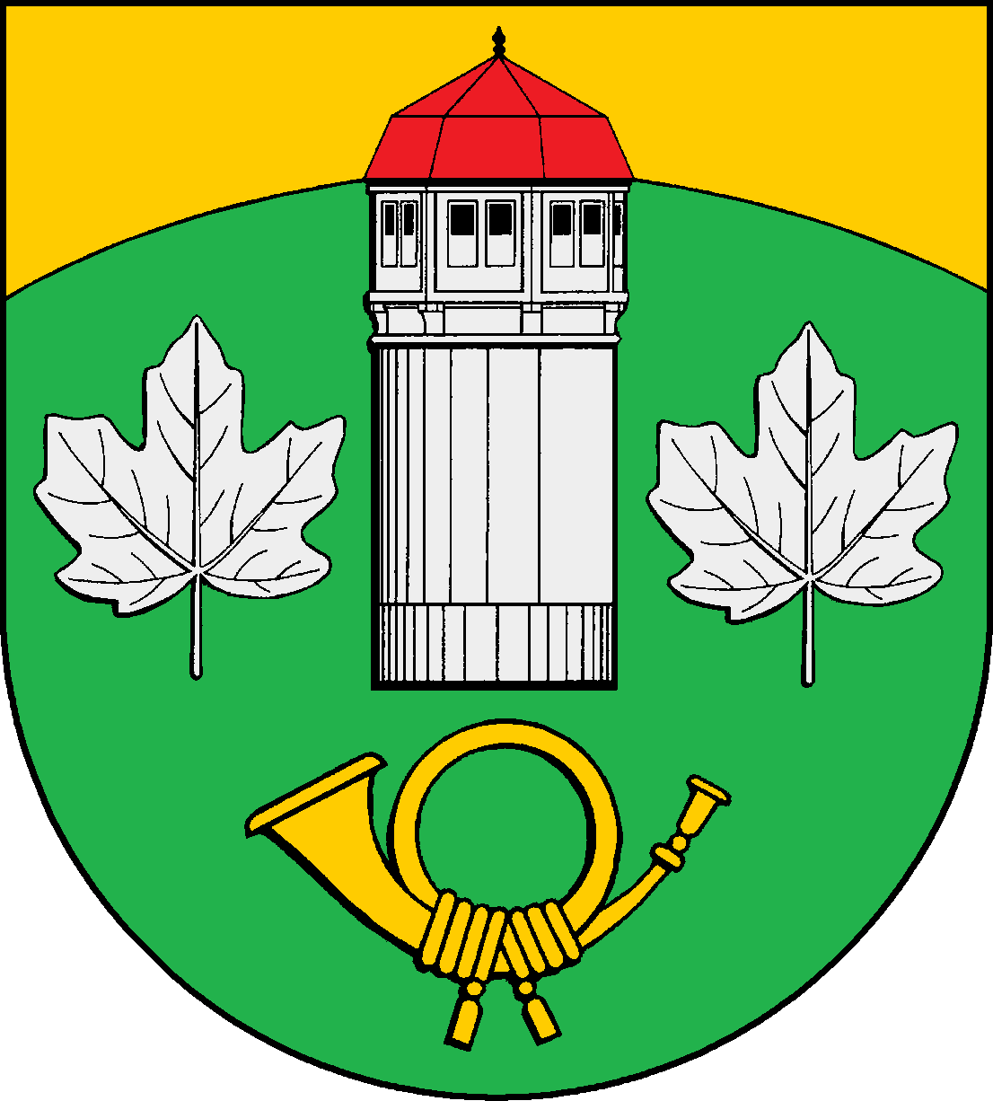 Coat of arms of the municipality Remmels in Schleswig-Holstein, Germany.